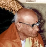 Viswanadha Satyanarayana photo (face closeup)